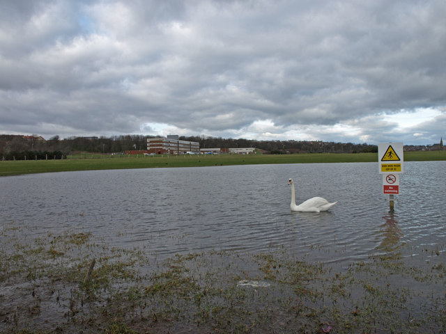 Pond, Auchenharvie Golf Course Auchenharvie Academy in the distance.